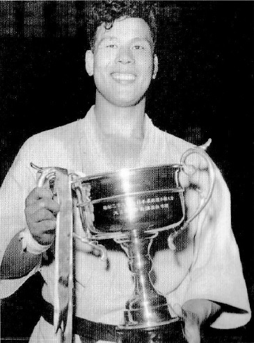 A Japanese judoka, Toshiro Daigo, after winning the All-Japan Judo Championships in 1951.